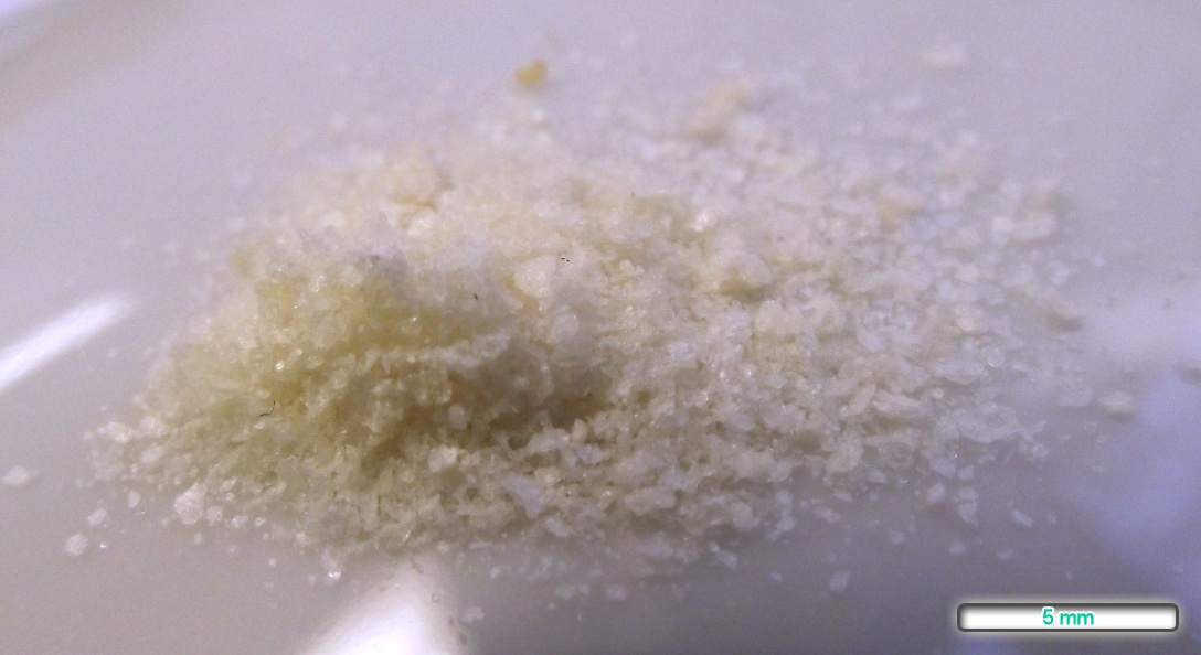 Photo of Procaine hydrochloride, pure